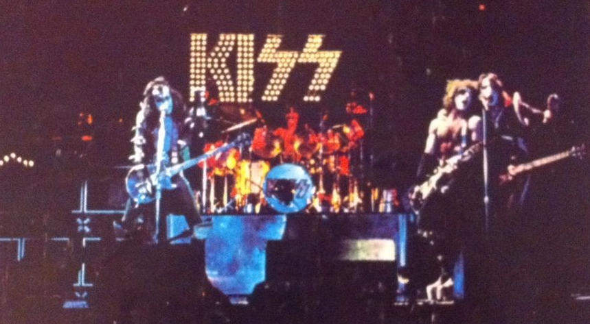 Kiss in 1975.